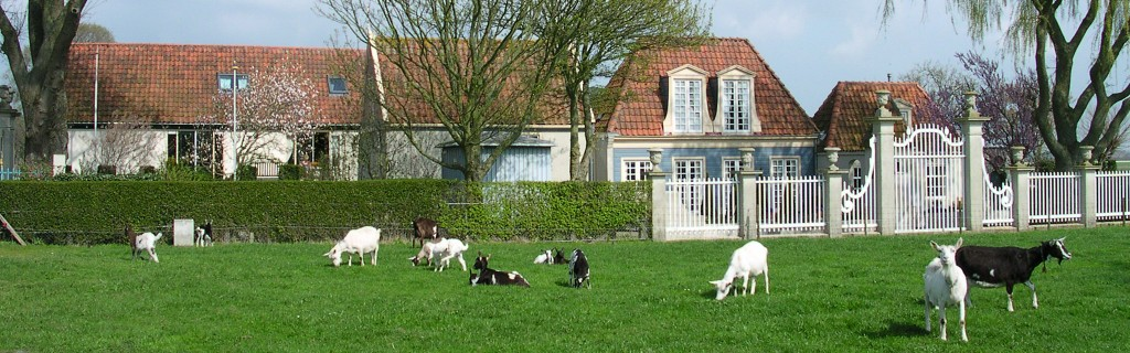 Folly's and goats in in the village of Binnenwijzend